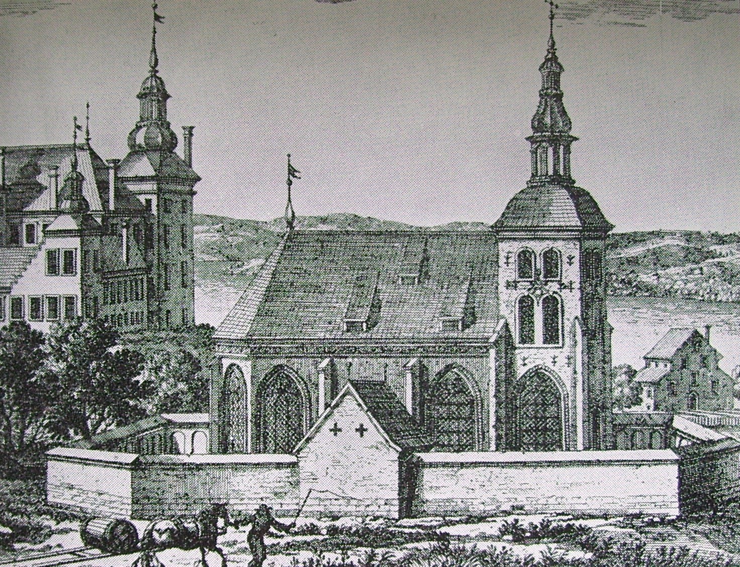 Picture of Tyresö church in Svecia antiqua et hodierna